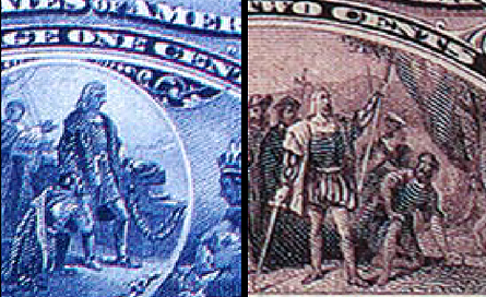 Postage stamps of the USA, Landing of Columbus, 1 and 2 cents (fragments), 1893